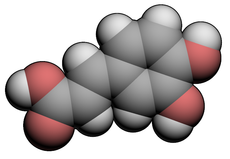 Molecular spacefill of Caffeic Acid